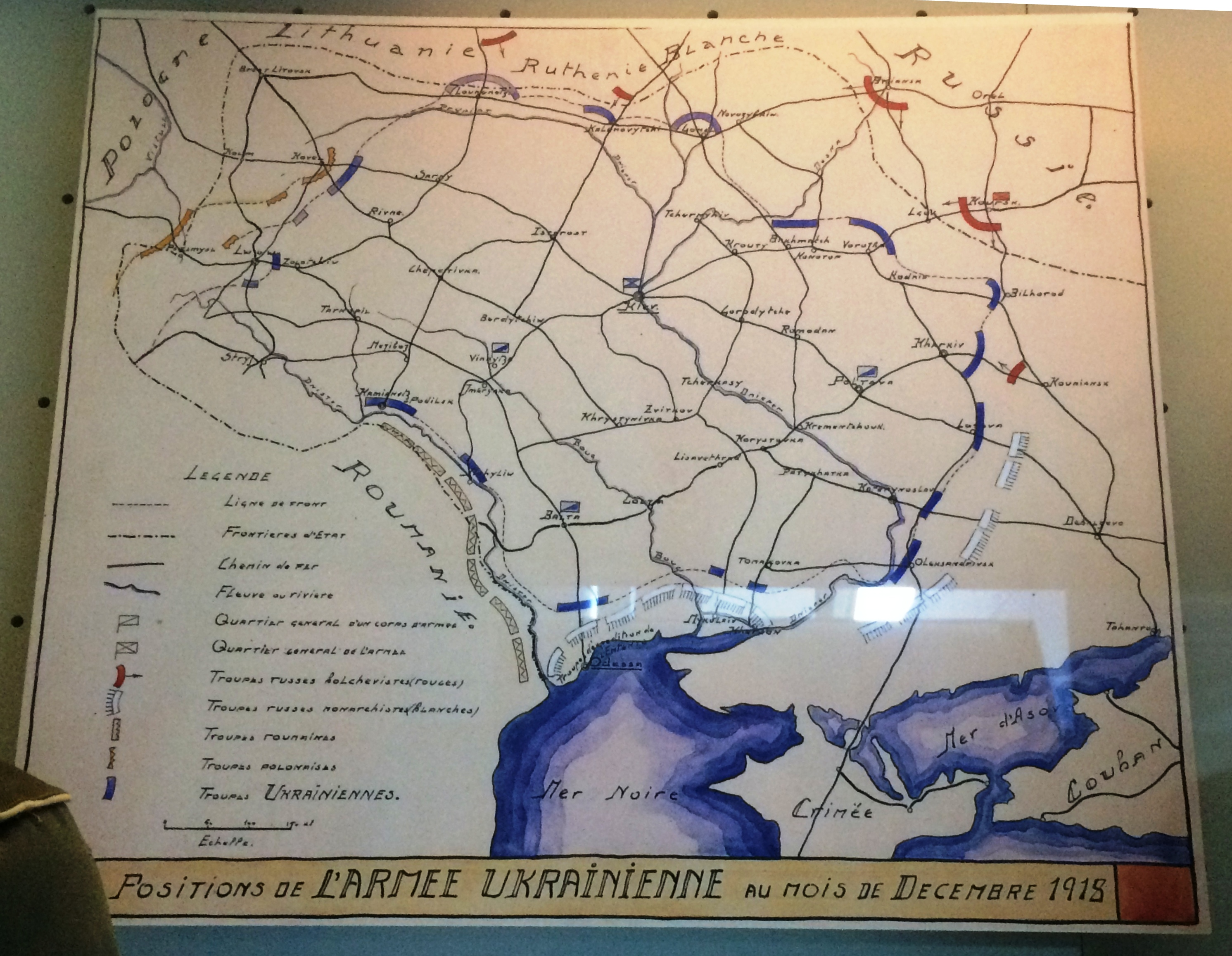 Map showing the positions of the Ukrainian army in December 1918. Photo taken at the Royal Military Museum, Brussels.